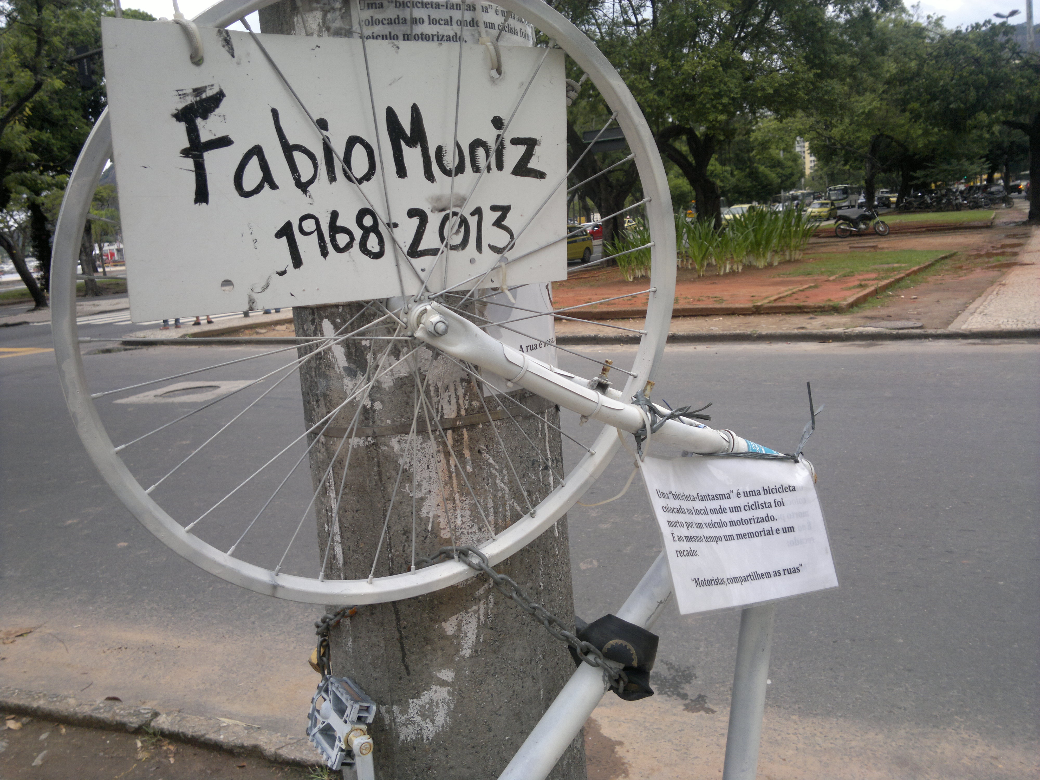 Fábio Muniz's Ghost Bike at Rio de Janeiro. Date: 2013-05-24.